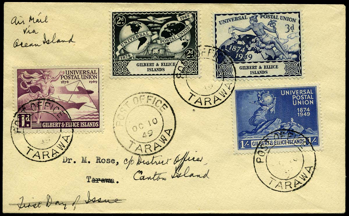 Cover from the Gilbert and Ellice Islands, 1949 UPU issue. The scratchout of the "first day of issue" seems to derive from a confusion in the Scott catalog, which reports the first day as 10/1 rather than 10/10, in contradiction to other catalogs.